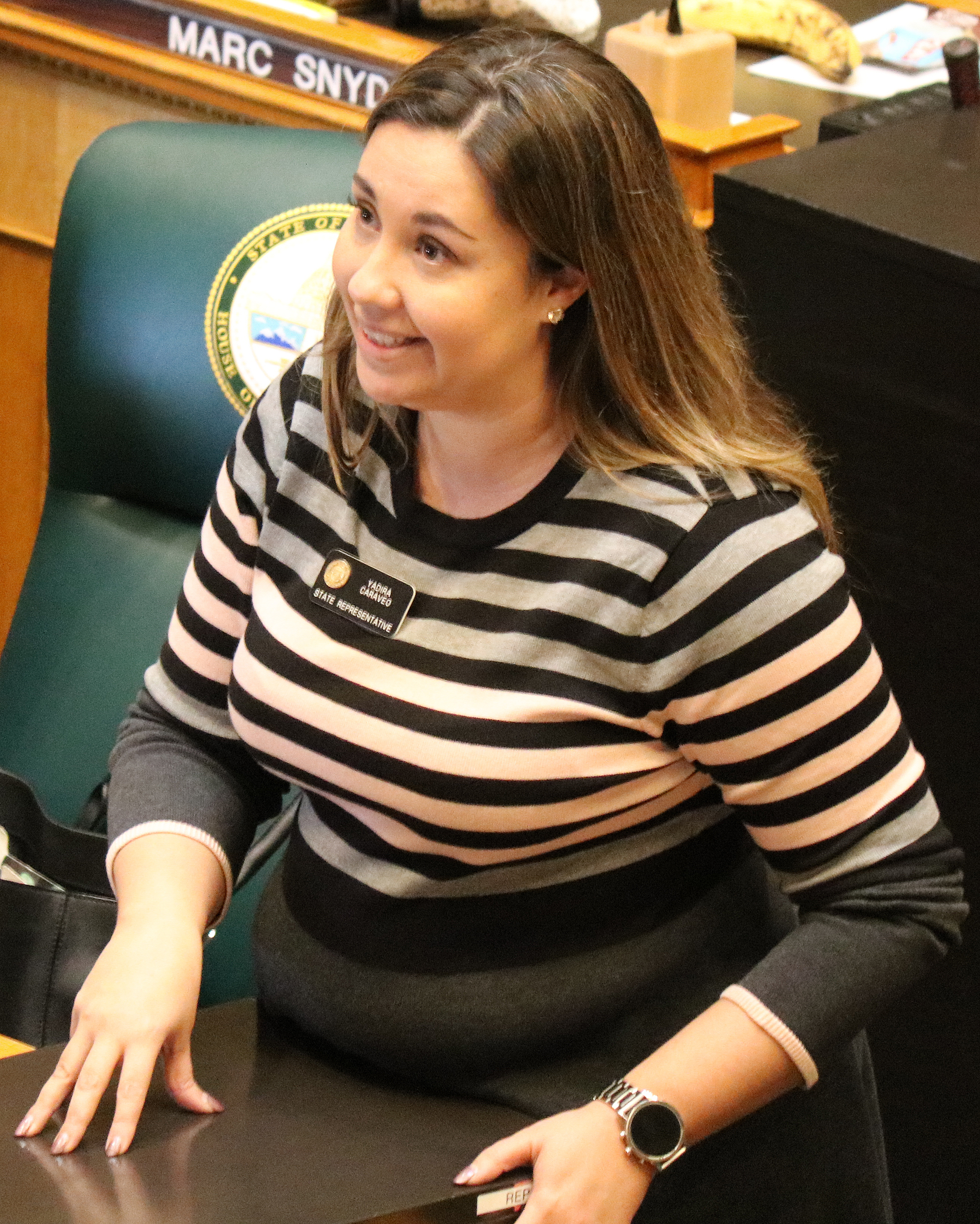 Yadira Caraveo, a politician from Colorado.